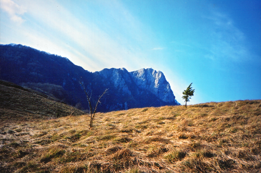 East face of Mt. Klek, Velika Kapela range, Dinaric Alps, Croatia